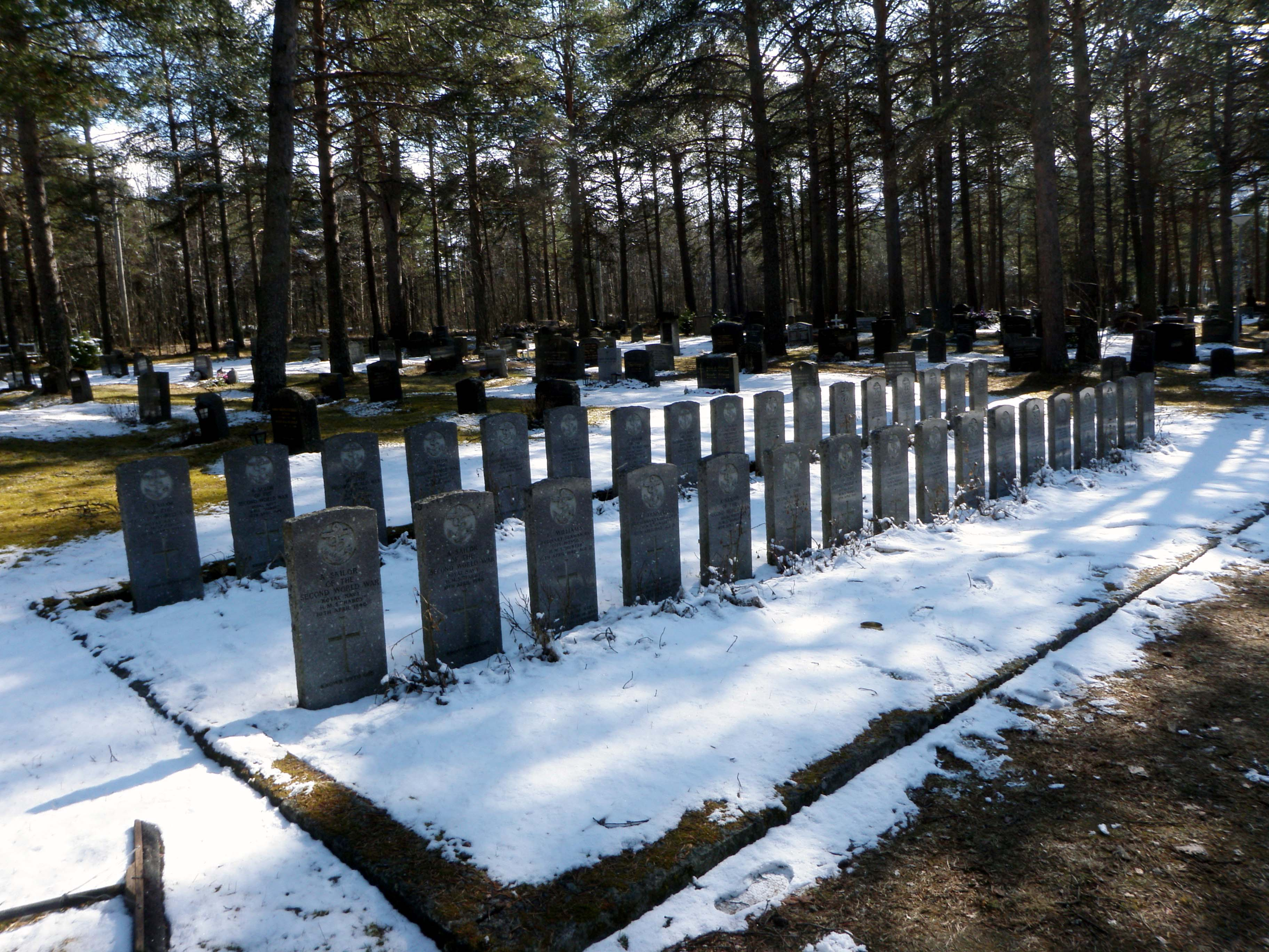 The gravestones of 34 Royal Navy sailors killed on 10 April 1940 during the Battles of Narvik. The graves are located at the Commonwealth War Graves section of Håkvik cemetery in Narvik, Nordland, Norway. Of the 34 dead at Håkvik, 32 are unidentified casualties of the sinking of HMS Hardy, while two are identified dead from the sinking of HMS Hunter.